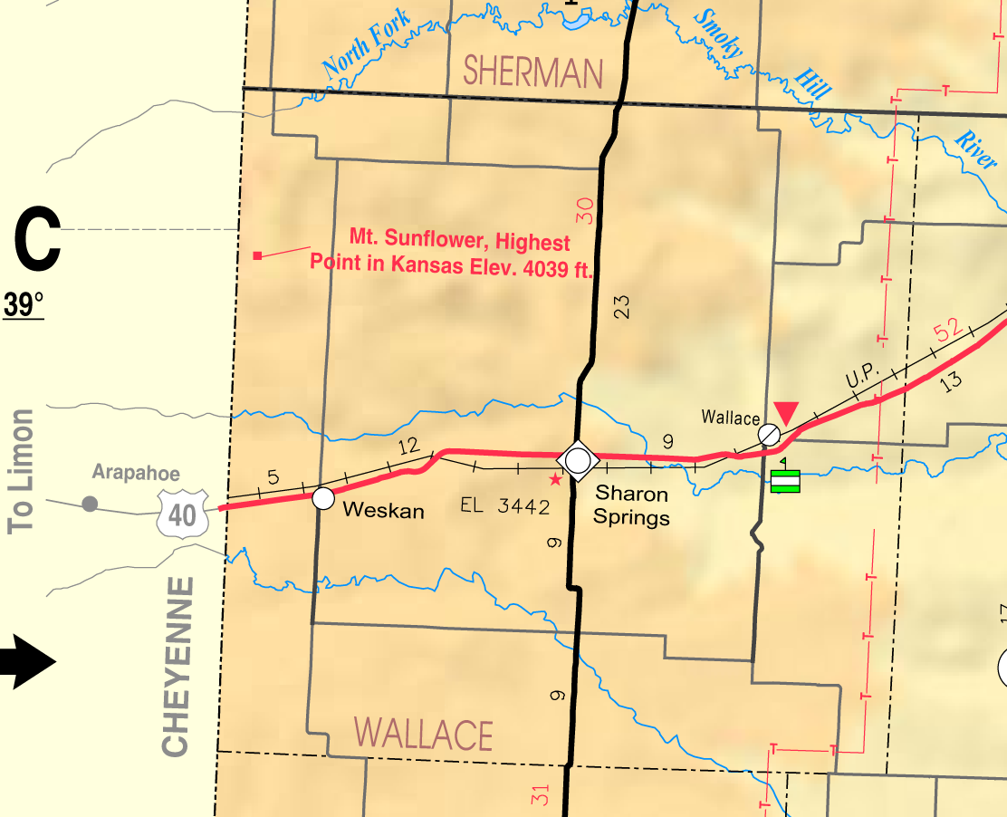 This map of Wallace County, Kansas, USA, is copied at a resolution of 300 pixels/inch from the original PDF file.